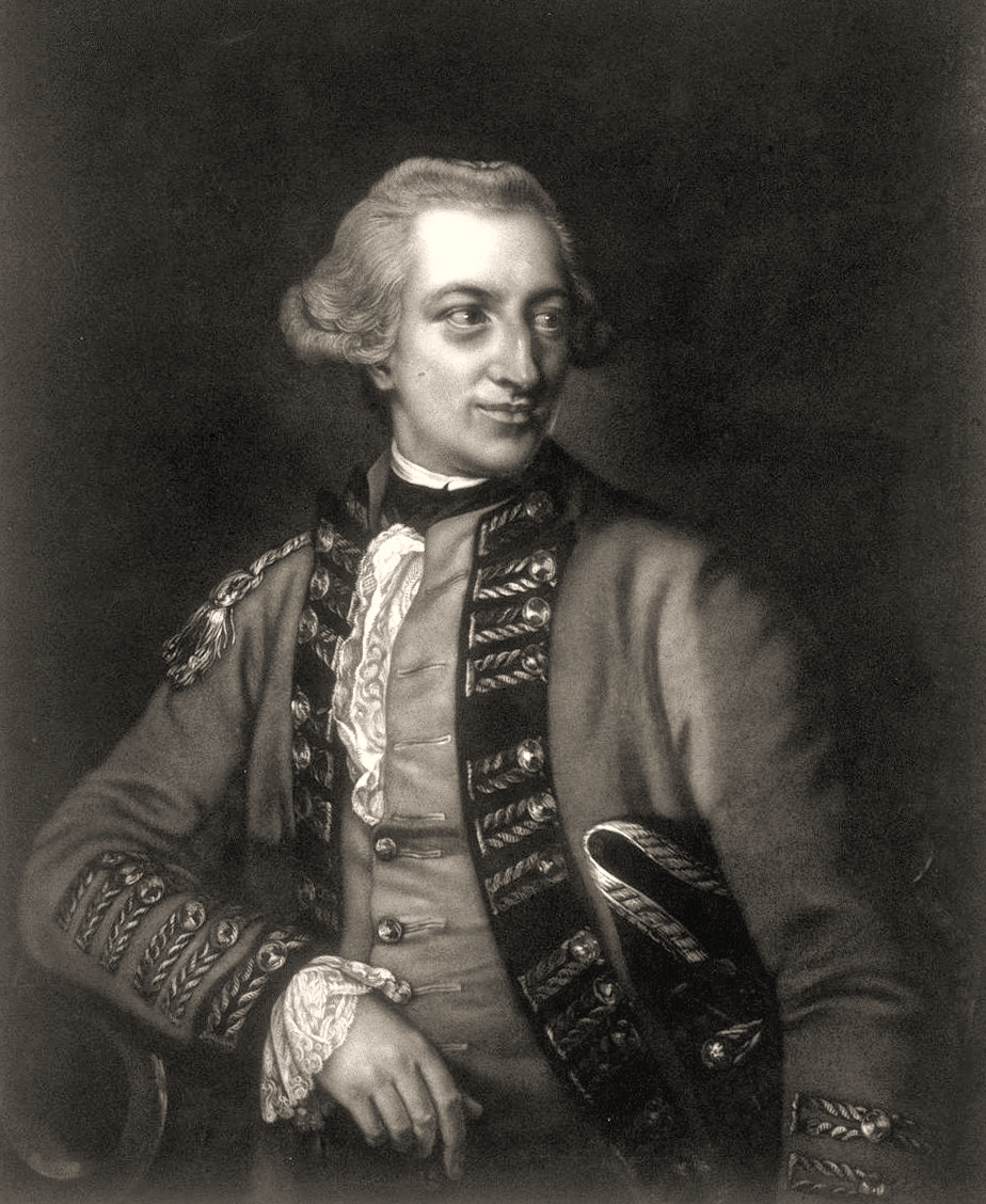 Hugh Percy, 2nd Duke of Northumberland (1742-1817)